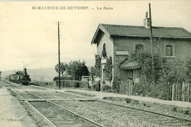 Poscard Saint-Maurice-de-Beynost station (1910).